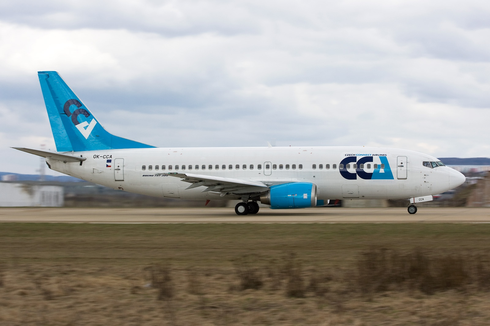 Boeing 737-300 of Czech Connect Airlines (registration OK-CCA) at Brno-Turany International Airport.